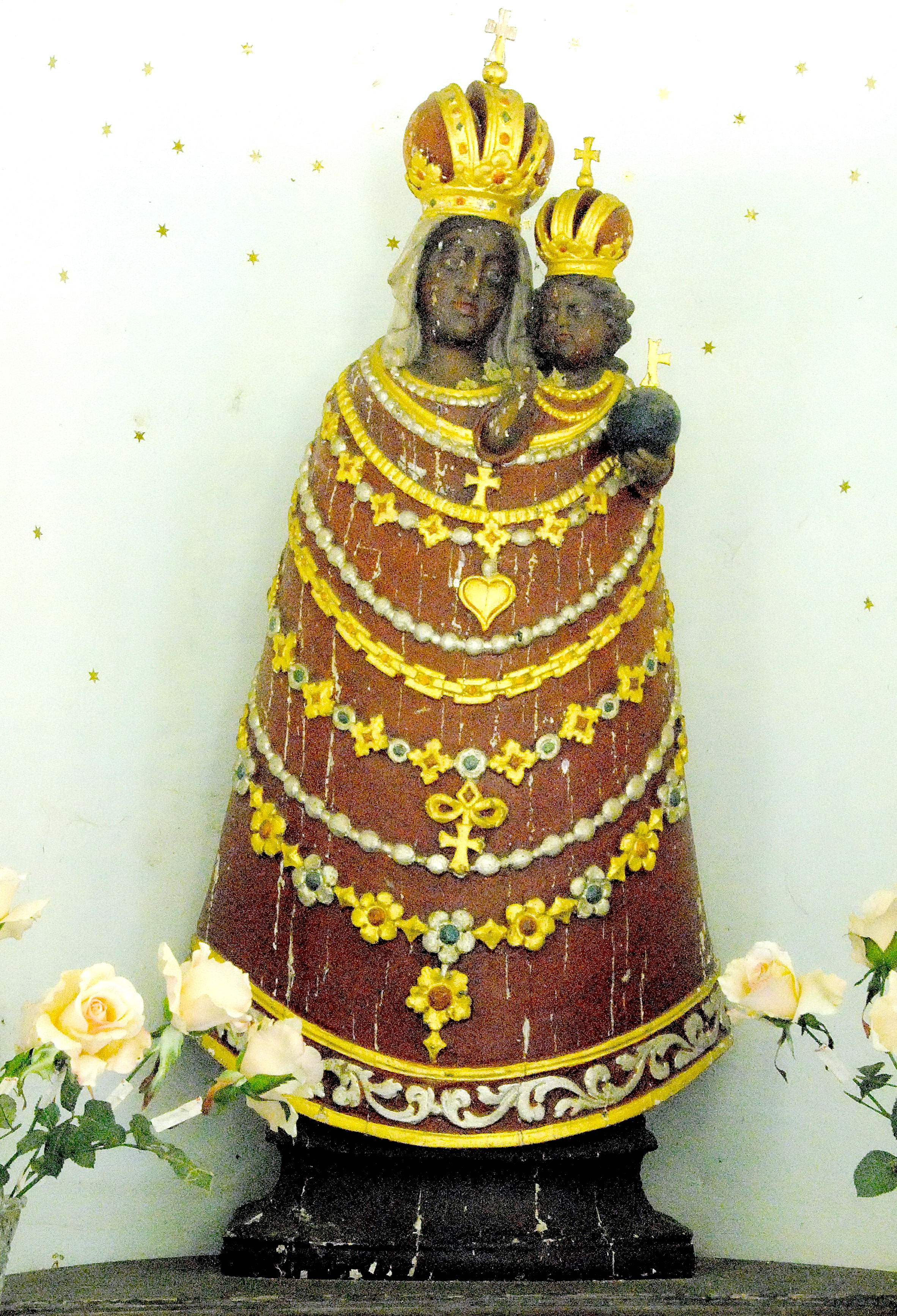 Black Madonna in the Waldkirche at Unterglandorf, municipality Sankt Veit an der Glan, Carinthia / Austria / EU